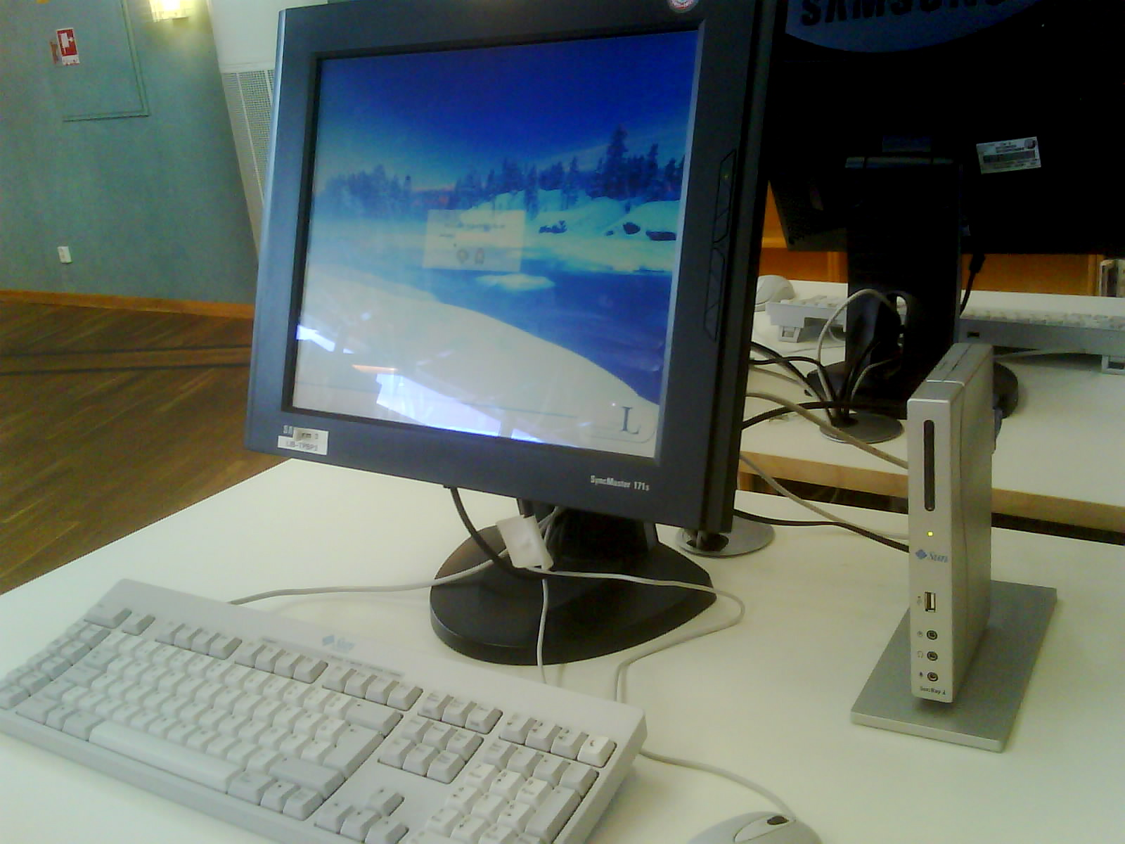 Sun Ray light client and Samsung SyncMaster 171s monitor.